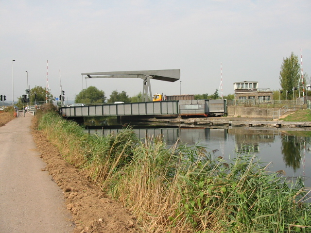 Exeter canal and towpath and A379 bridge